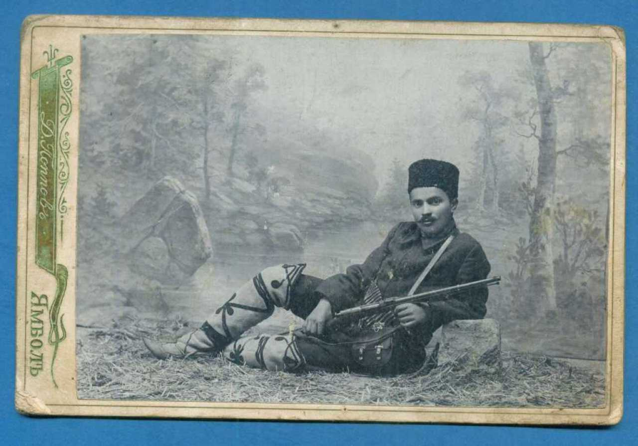 Delcho Kotsev